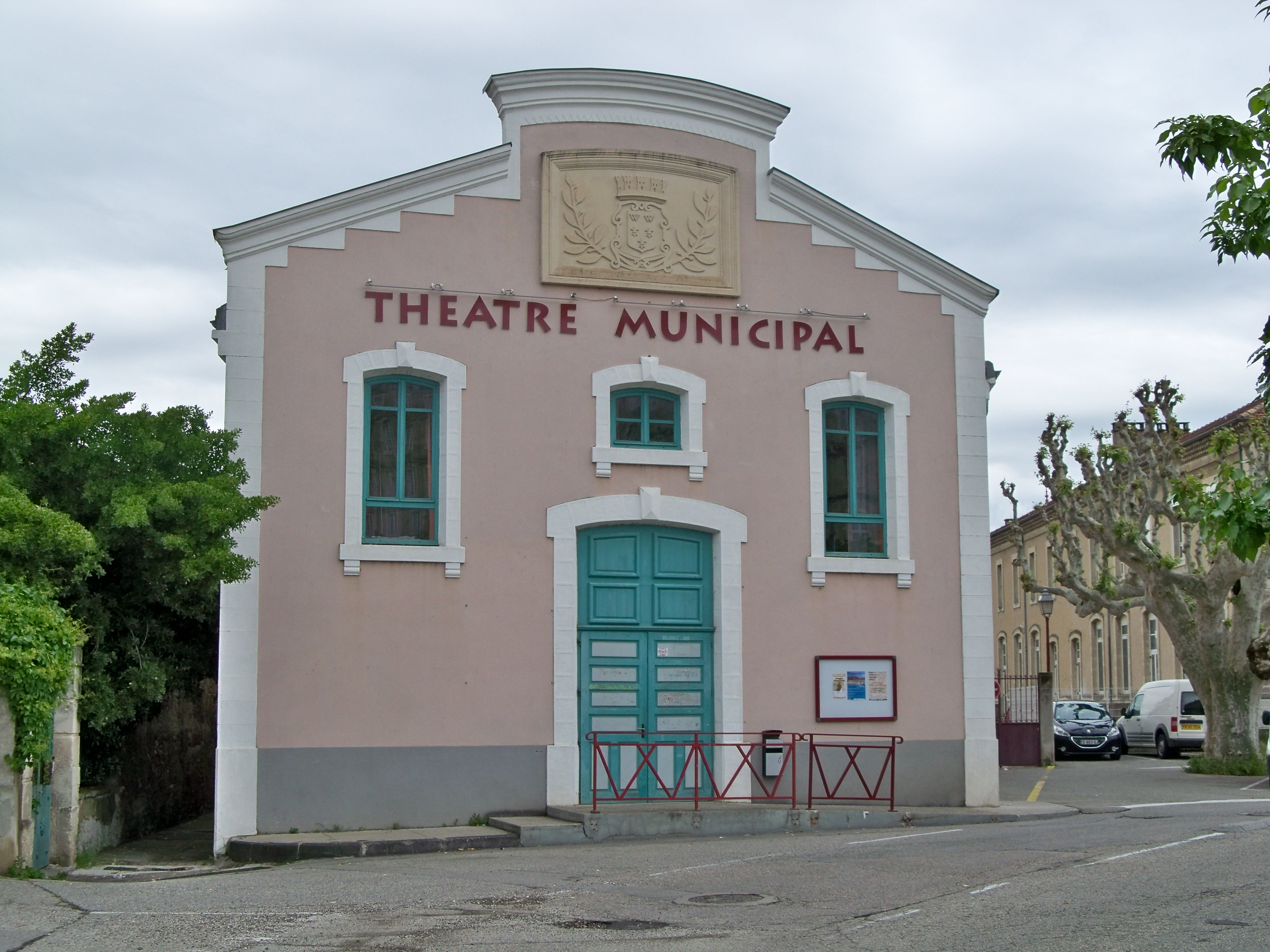 municipal theater at Viviers (Ardeche)